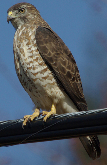 A Broad-winged Hawk in Marlboro, Vermont, USA